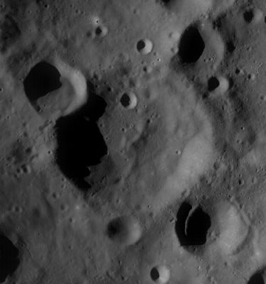 LROC image WAC No. M118416953ME. Calibrated by LROC_WAC_Previewer.